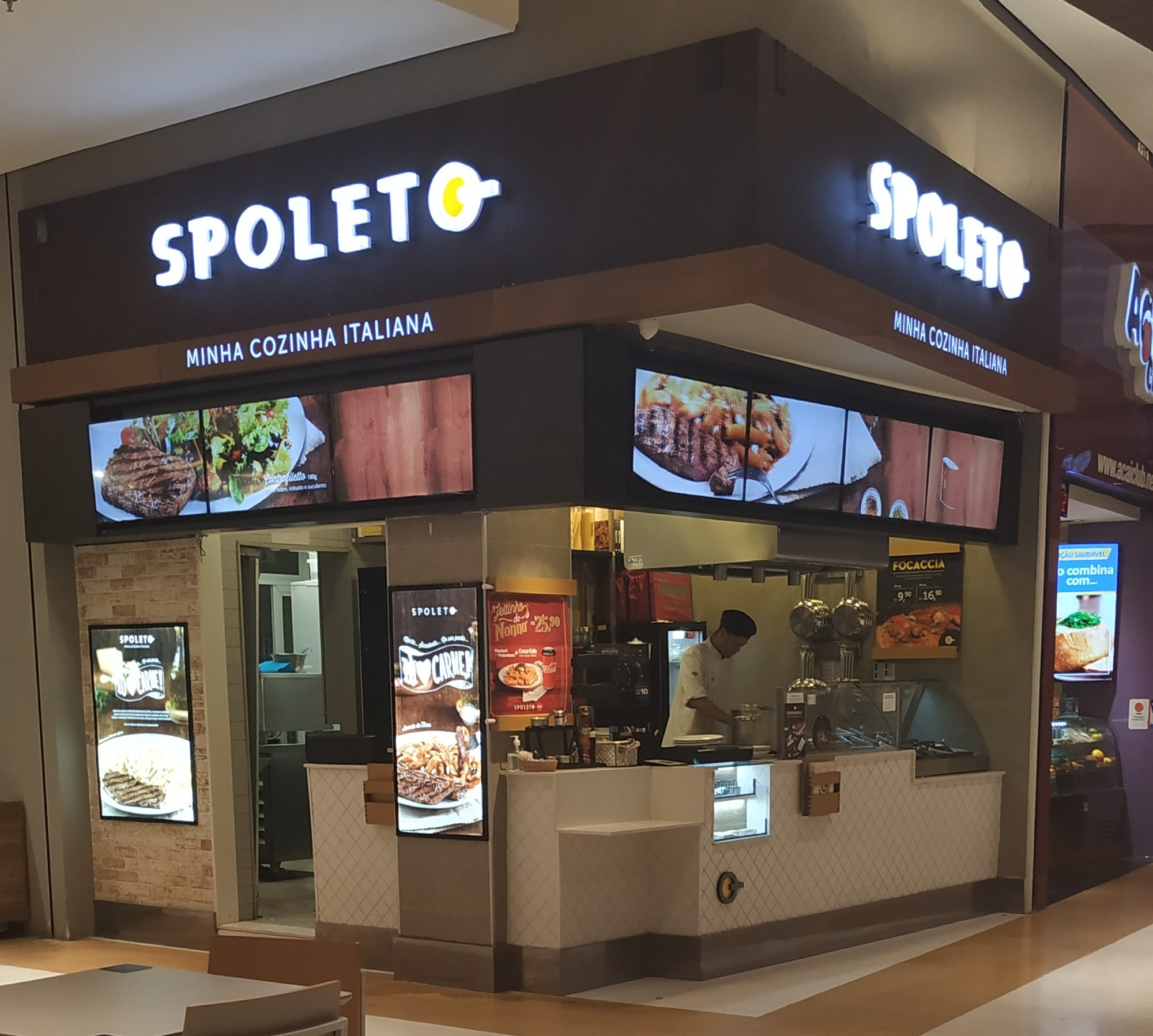 Spoleto on Mogi das Cruzes, São Paulo inside Mogi Shopping Mall. New Store from the concept called "My Italian Kitchen".